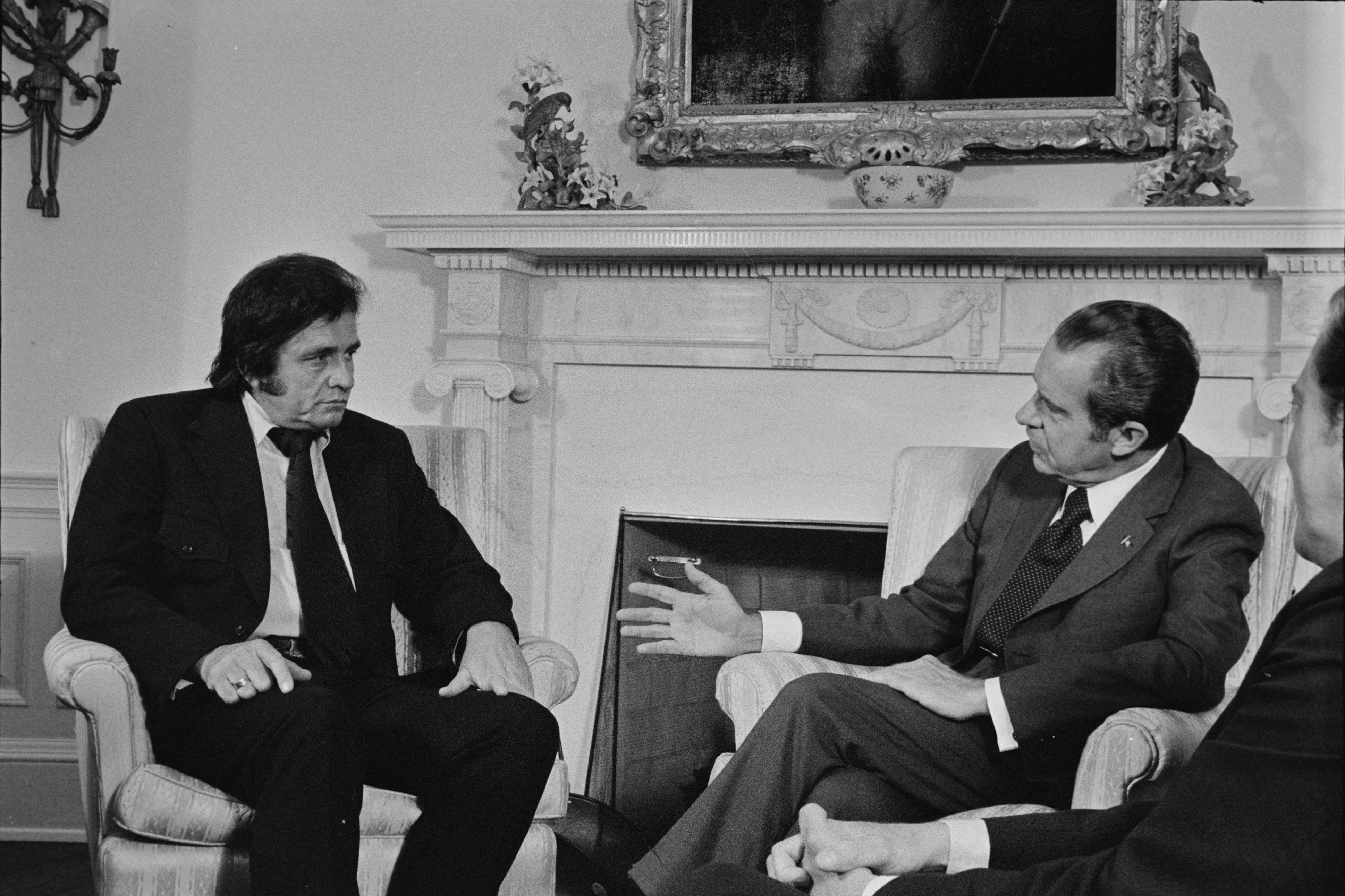 President Richard Nixon with Singer Johnny Cash in the Oval Office, July 26, 1972 Image: WHPO 9650-26